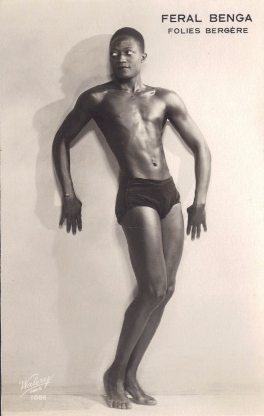 Postcard of Feral Benga in Folies Bergere by Lucien Walery, c1930